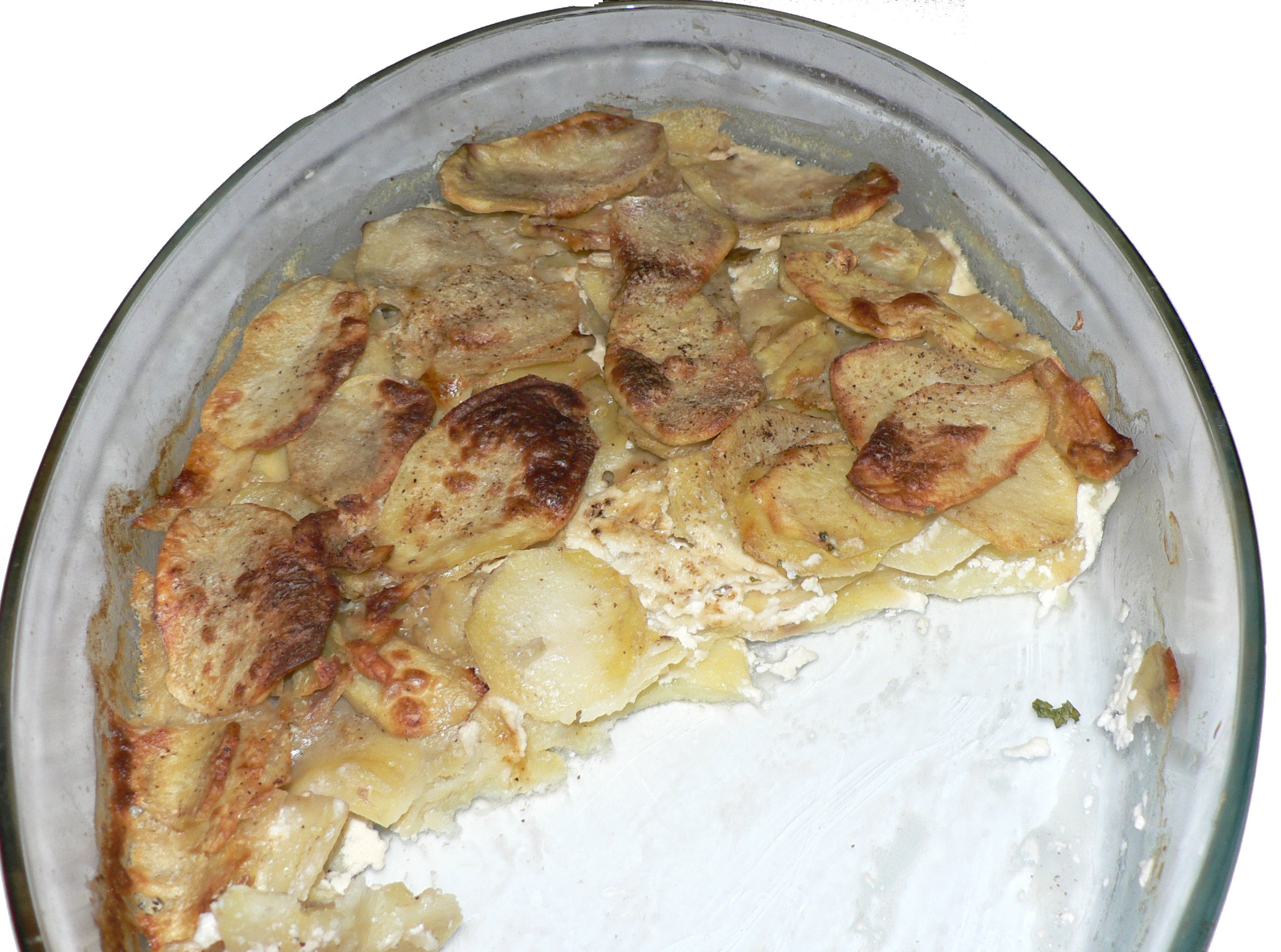 Gratin dauphinois